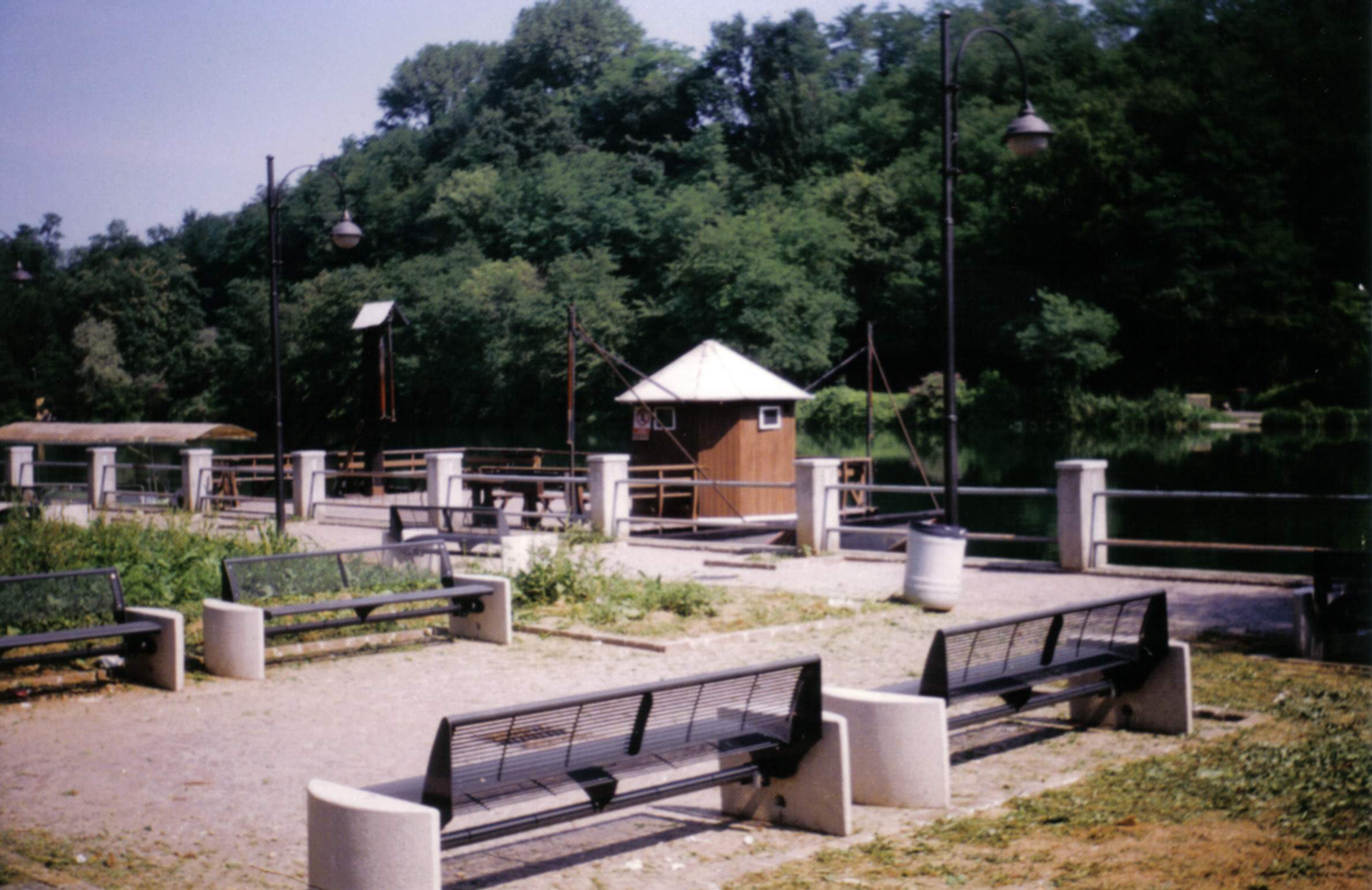 Imbersago's ferry. Moved by hand, it has been designed by Leonardo da Vinci